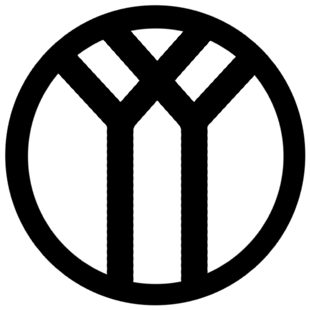 Reproduction of the emblem used by the Santiago High School Students Federation in 1973.